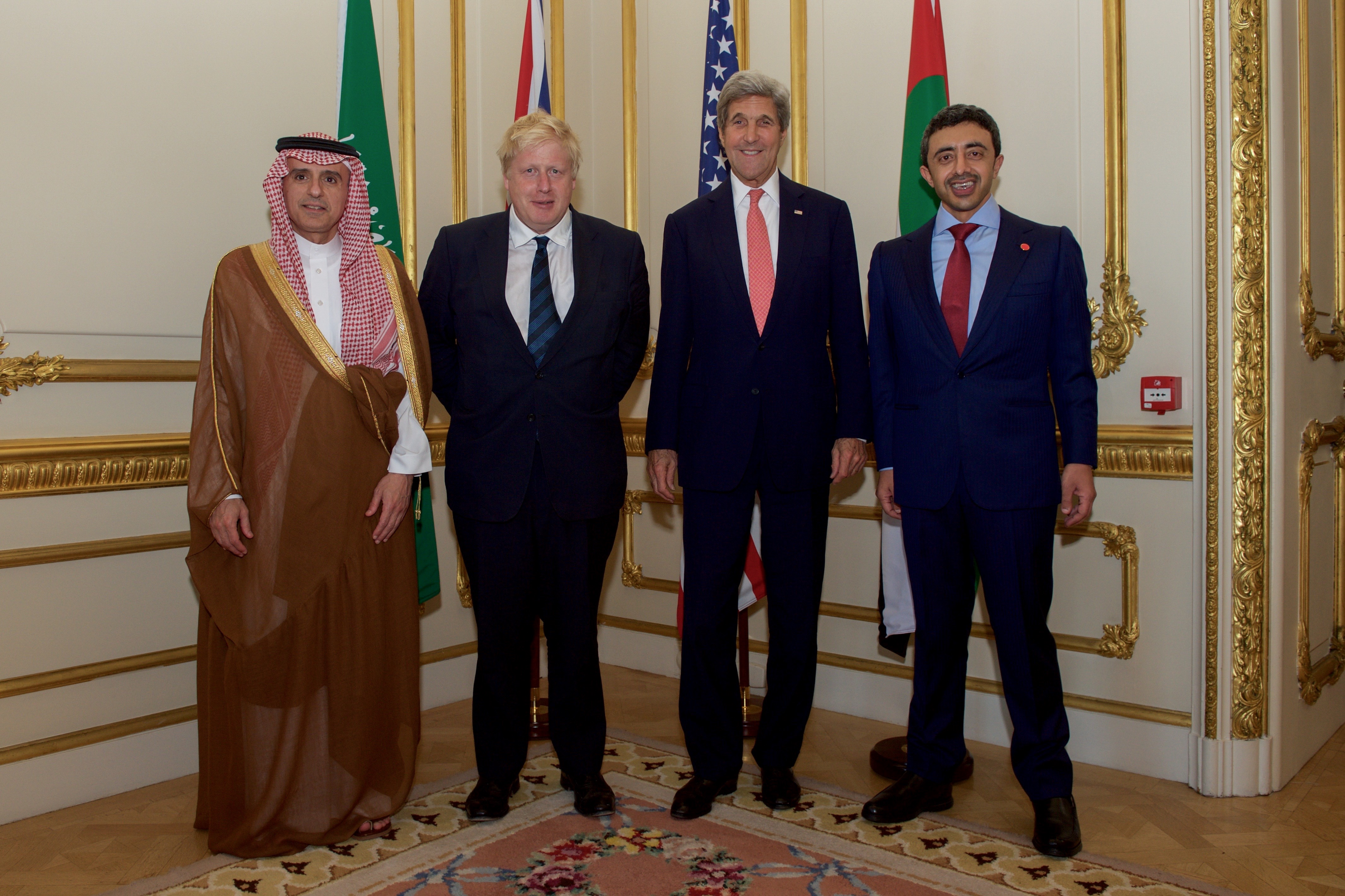 U.S. Secretary of State John Kerry poses with Saudi Arabia Foreign Minister Adel al-Jubeir, British Foreign Secretary Boris Johnson, and United Arab Emirates Foreign Minister Abdullah bin Zayed al Nahyan on July 19, 2016, at Lancaster House in London, U.K., before a working dinner focused on Yemen. [State Department Photo/ Public Domain]